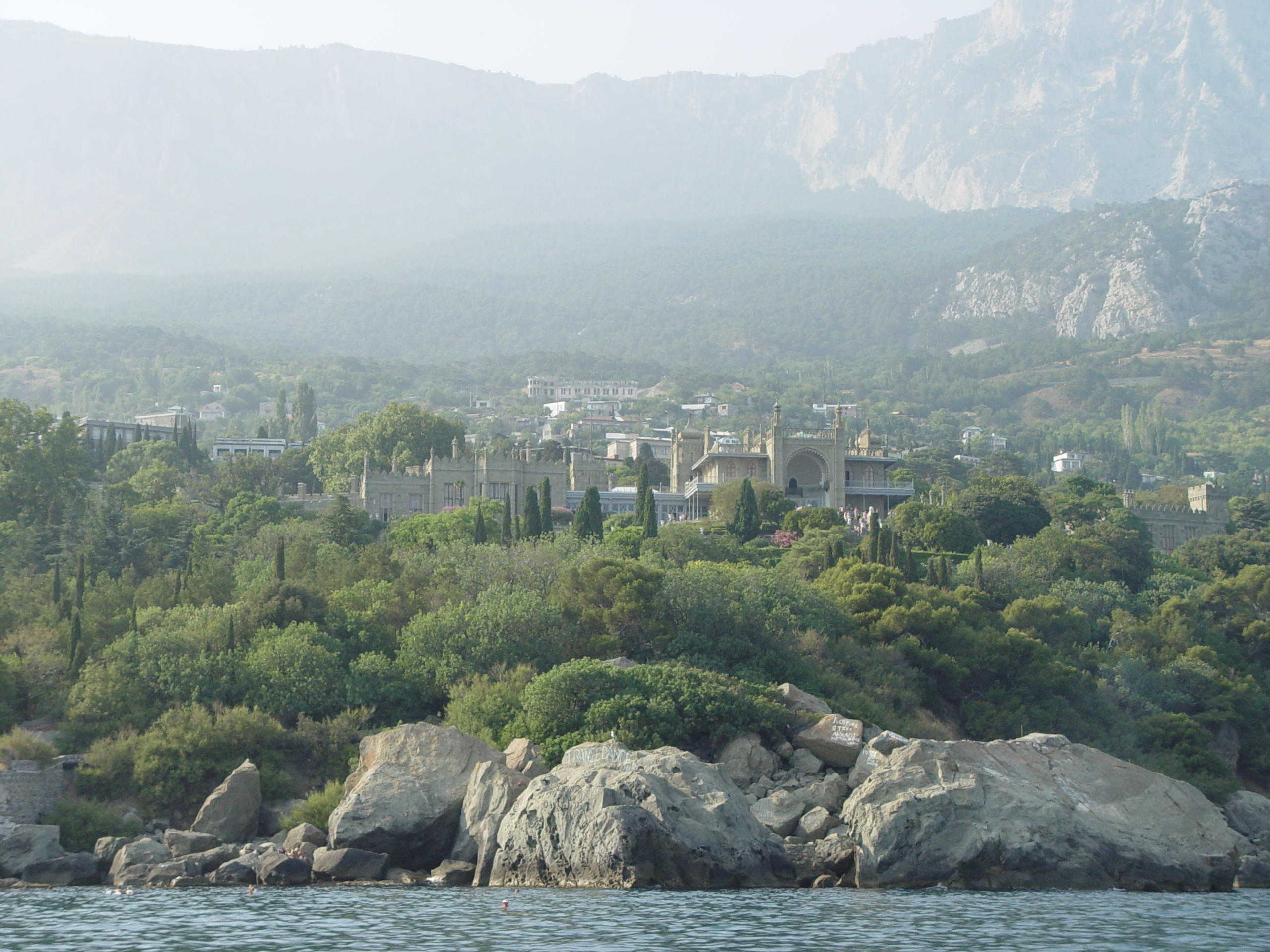 View on Vorontsovsky palace in Alupka (Crimea) from sea.